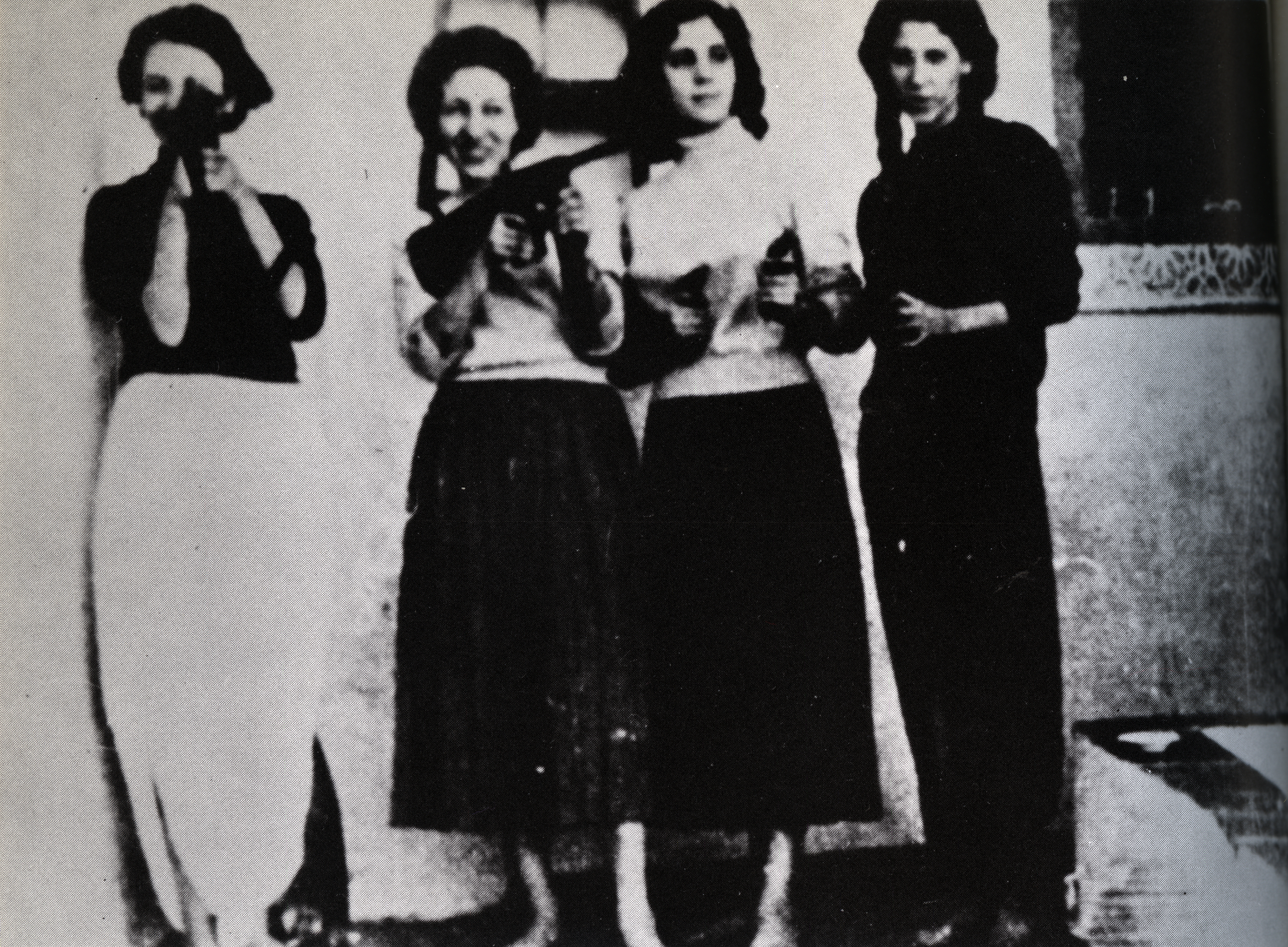 De gauche à droite : Samia Lakhdari, Zohra Drif, Djamila Bouhired, Hassiba Bent-Bouali.